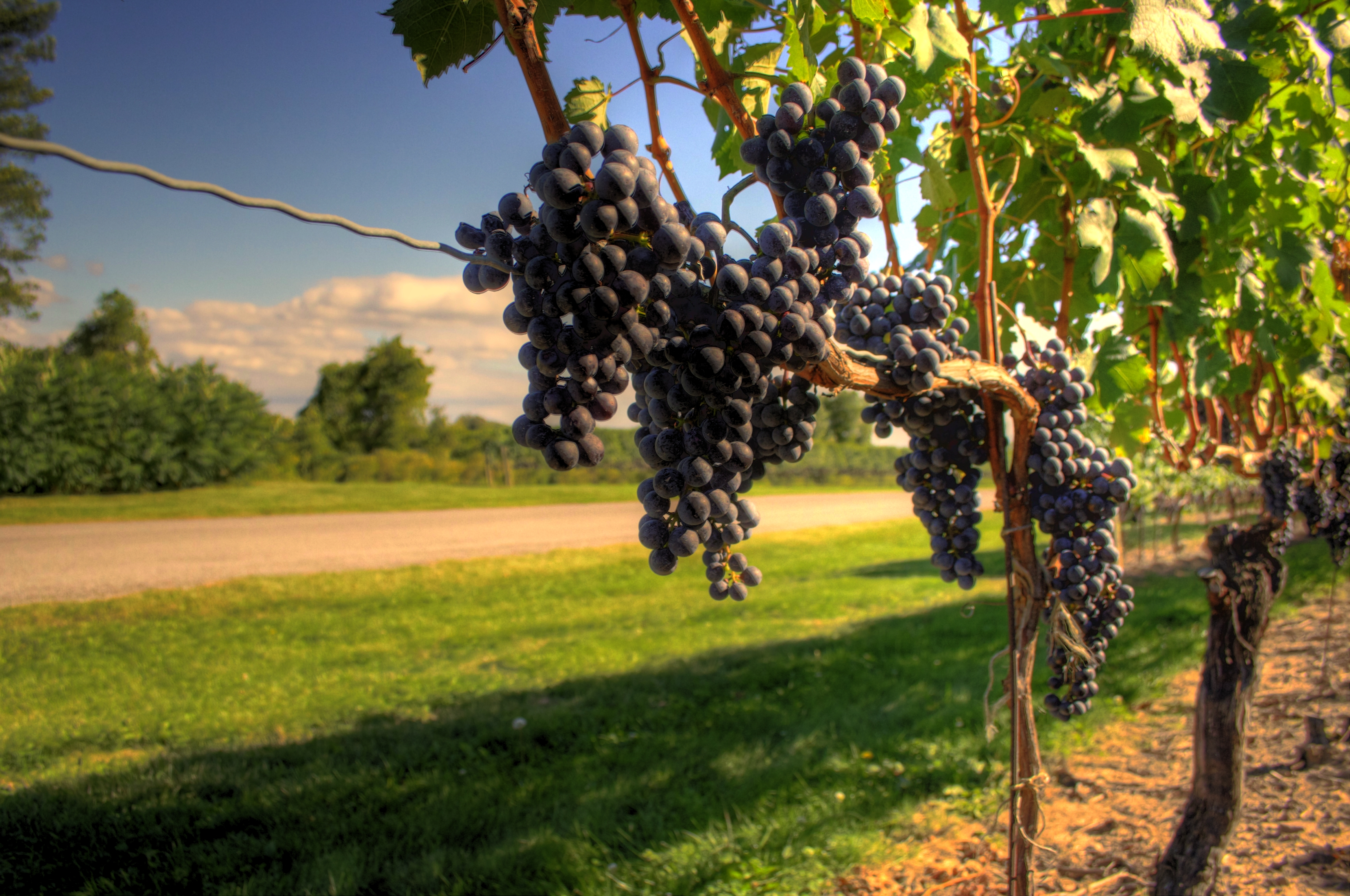 Wine grapes growing in the Canadian wine region of Niagara-on-the-Lake, Ontario in mid-September. The picture also shows a good example of how trellis wires are used in vine training.